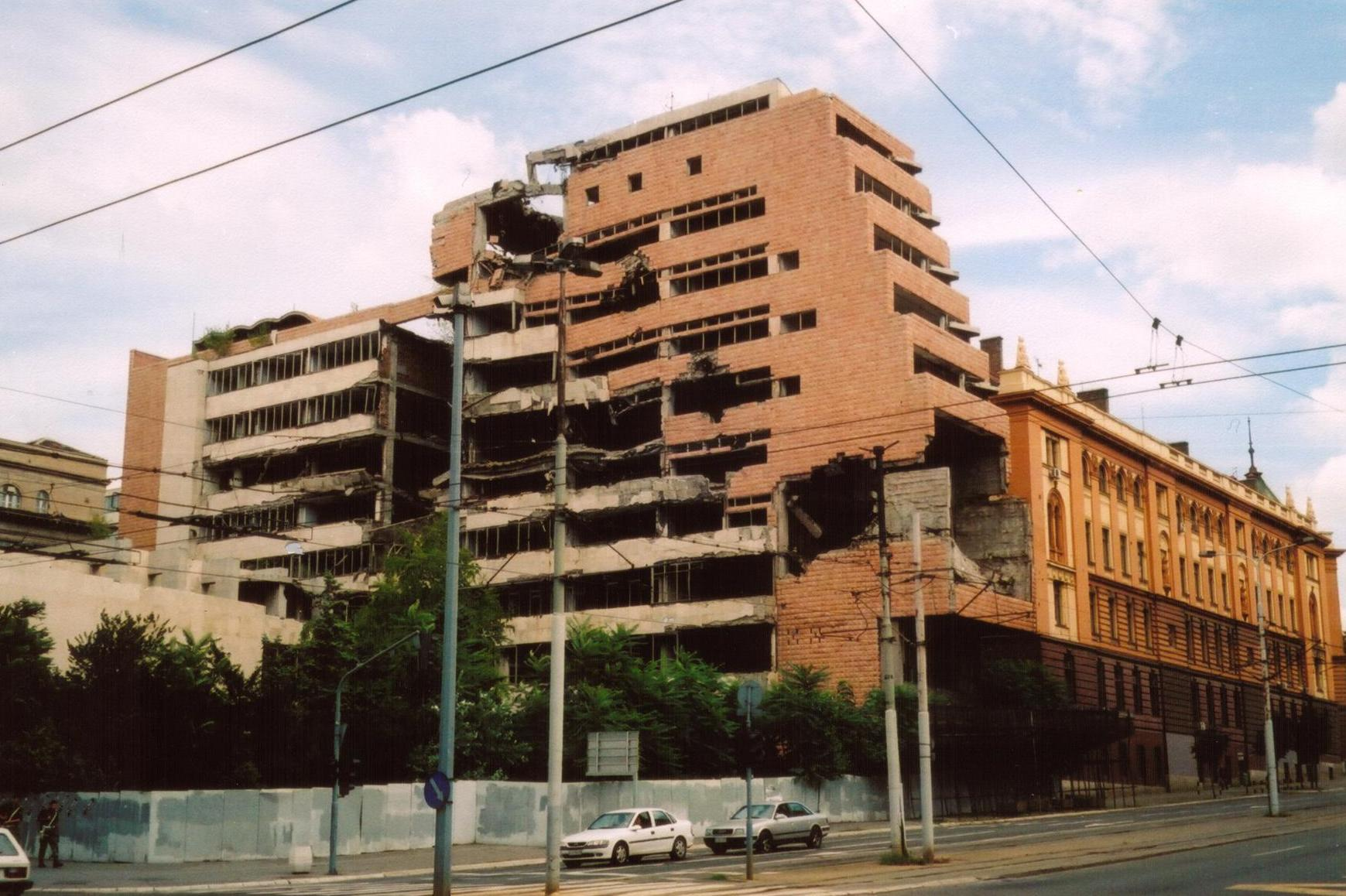 Yugoslav Army General Headquarters building damaged during NATO bombing. Photo taken in August, 2005.Not home 00:55, 3 May 2007 (UTC)